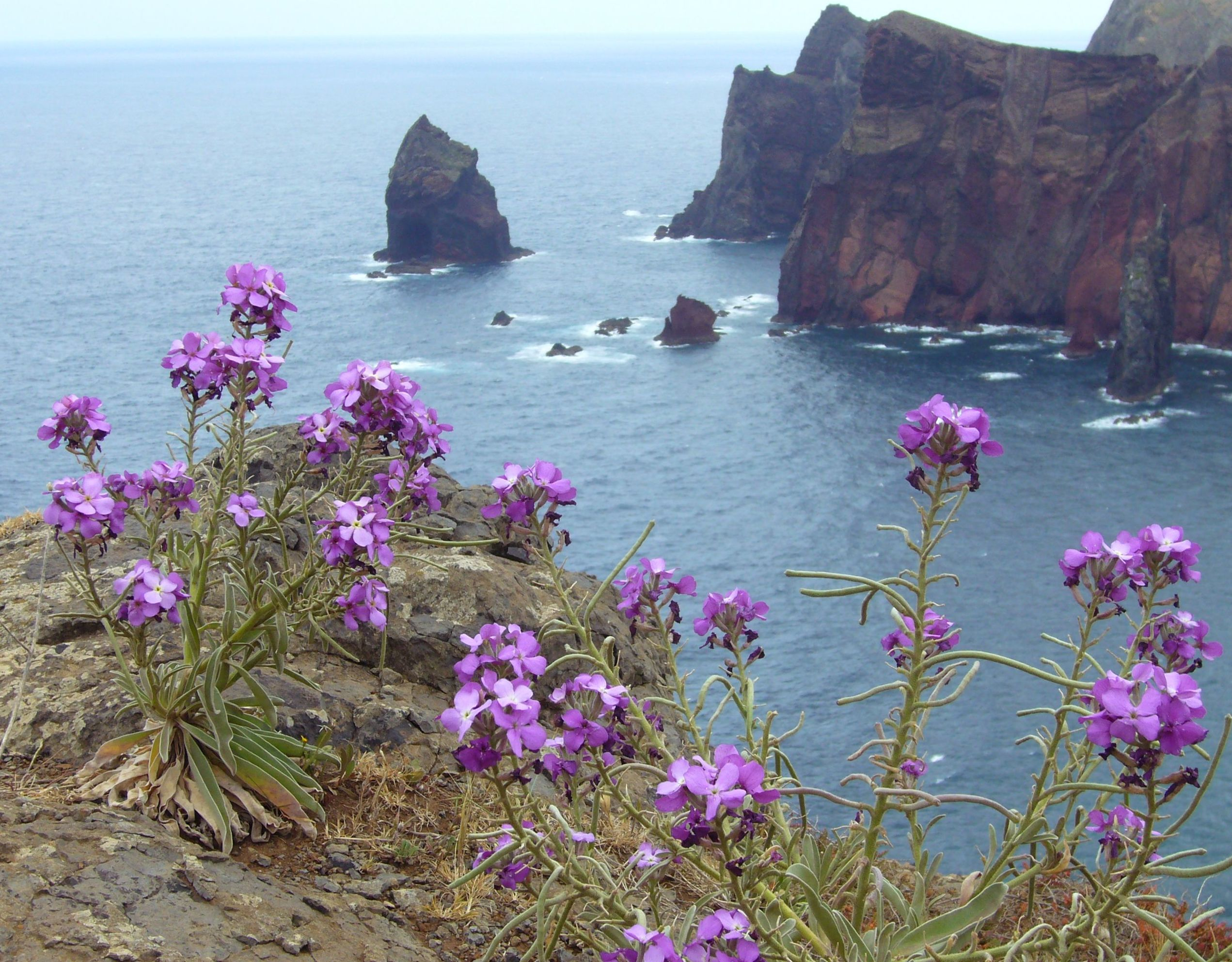 May flowers at Ponta de Săo Lourenço